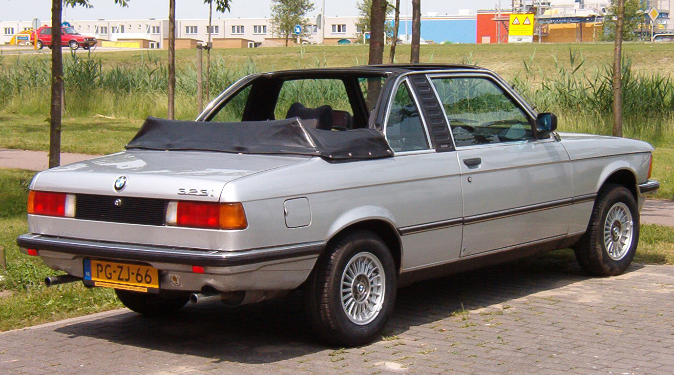 1981 BMW 323i Baur (E21)